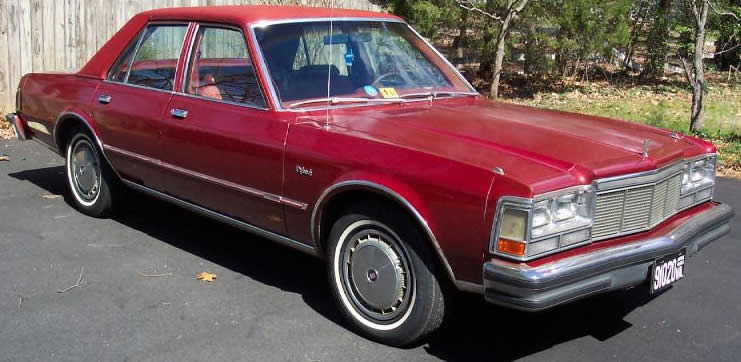 Information:Original author has given permission to allow this image to be released into the public domain